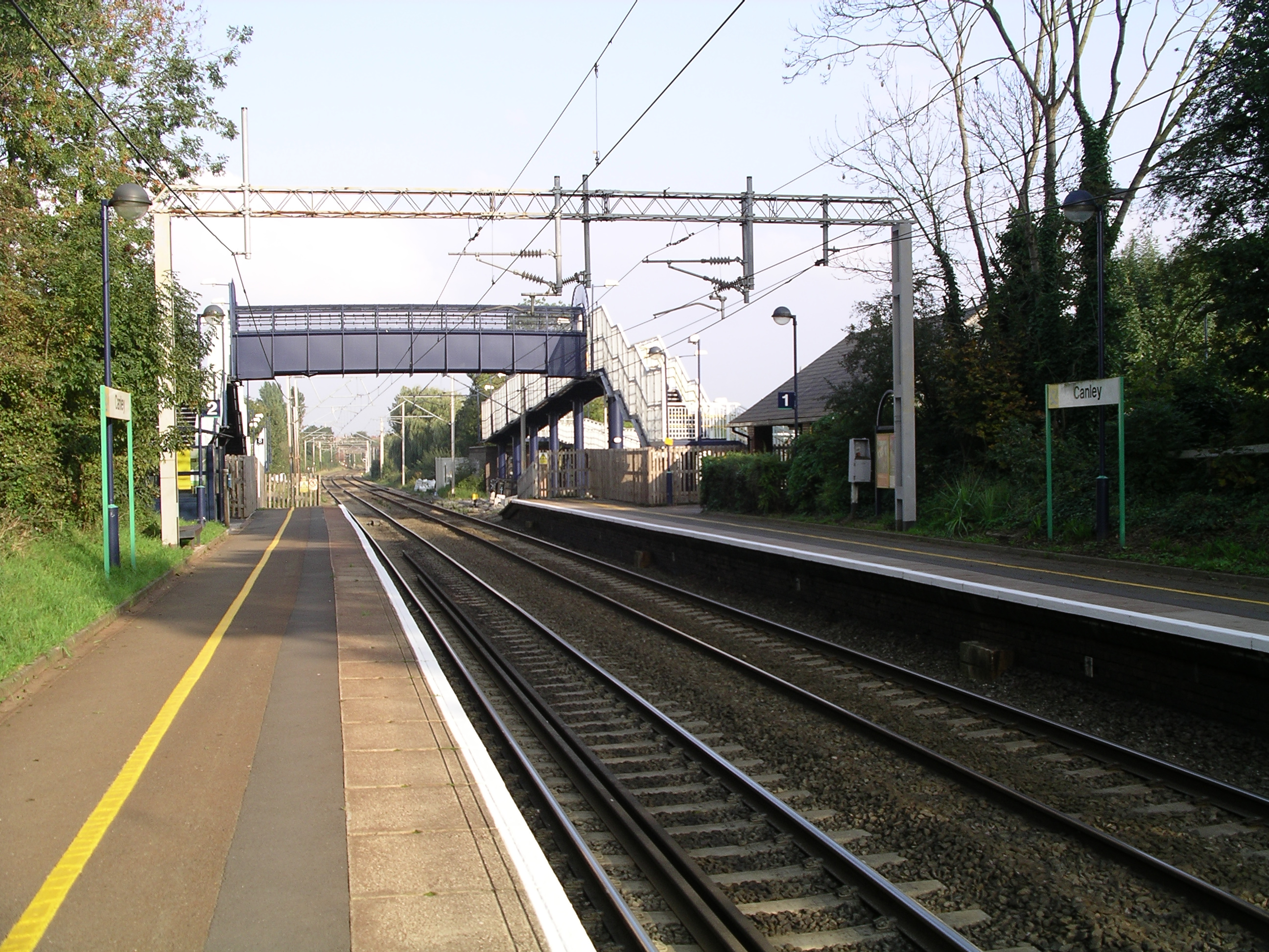 Photo taken by me of Canley Railway Station from the platform on 14 October 2006.